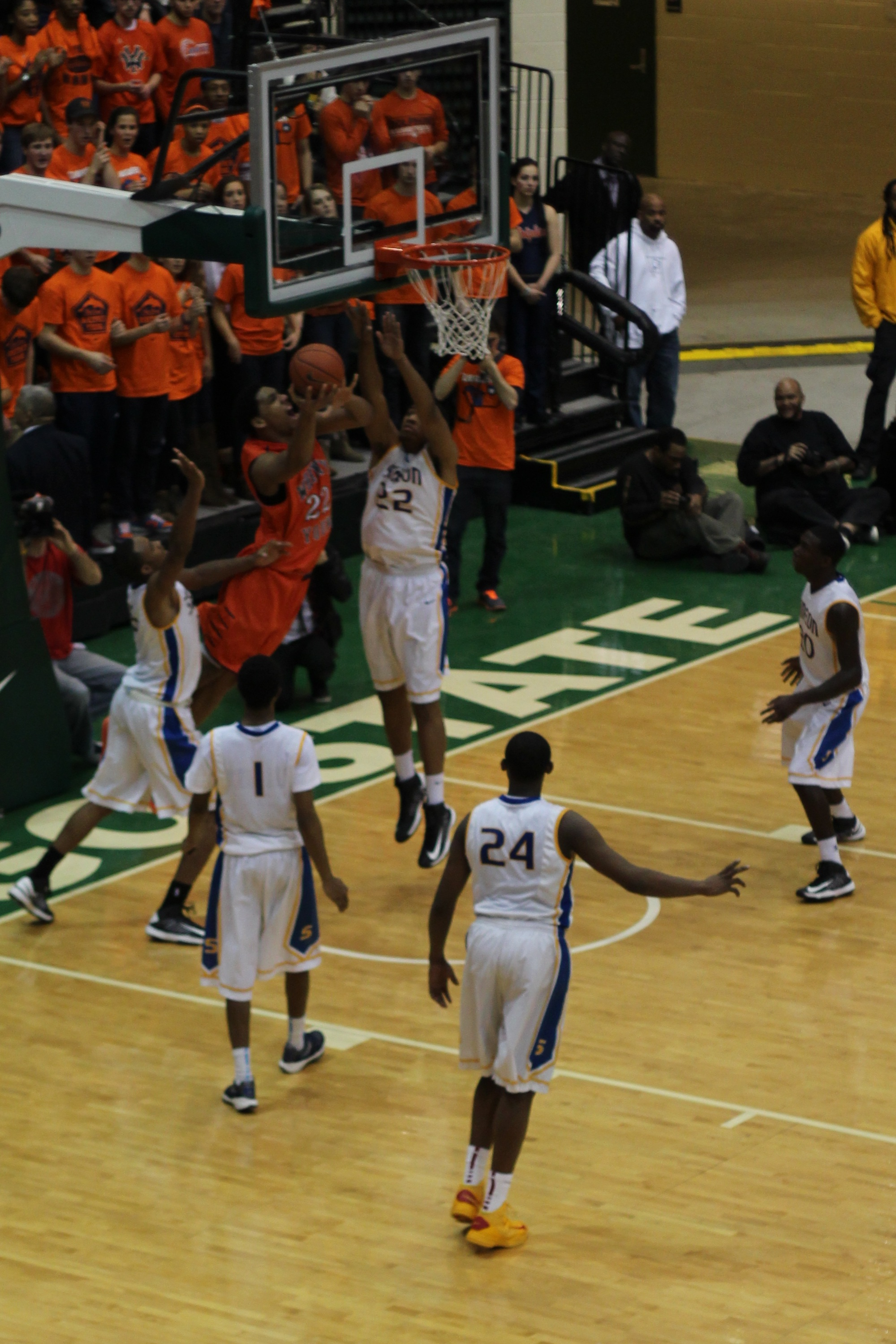 Jahlil Okafor drives baseline against Russell Woods and Jabari Parker during a Chicago Public High School League game between Simeon Career Academy and Whitney M. Young Magnet High School at the Jones Convocation Center